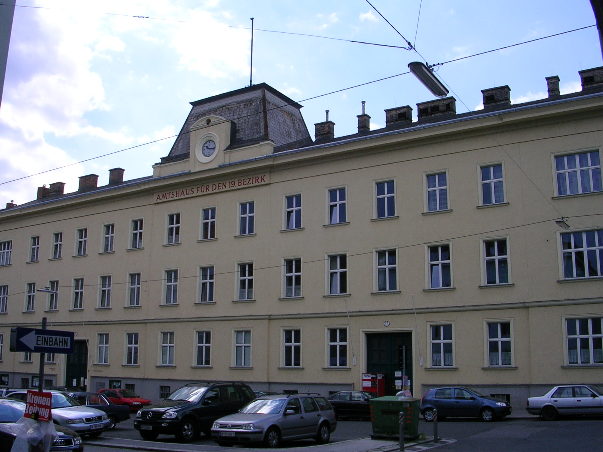 District office in Döbling (Döbling)